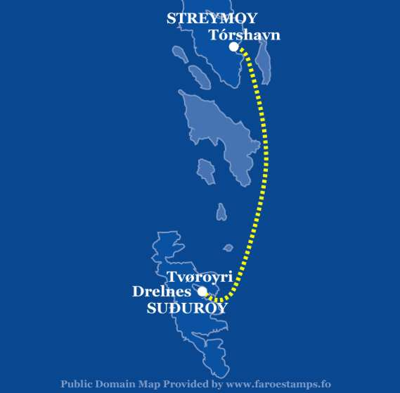 depiction of ferry service between Eysturoy and Suduroy, Faroes